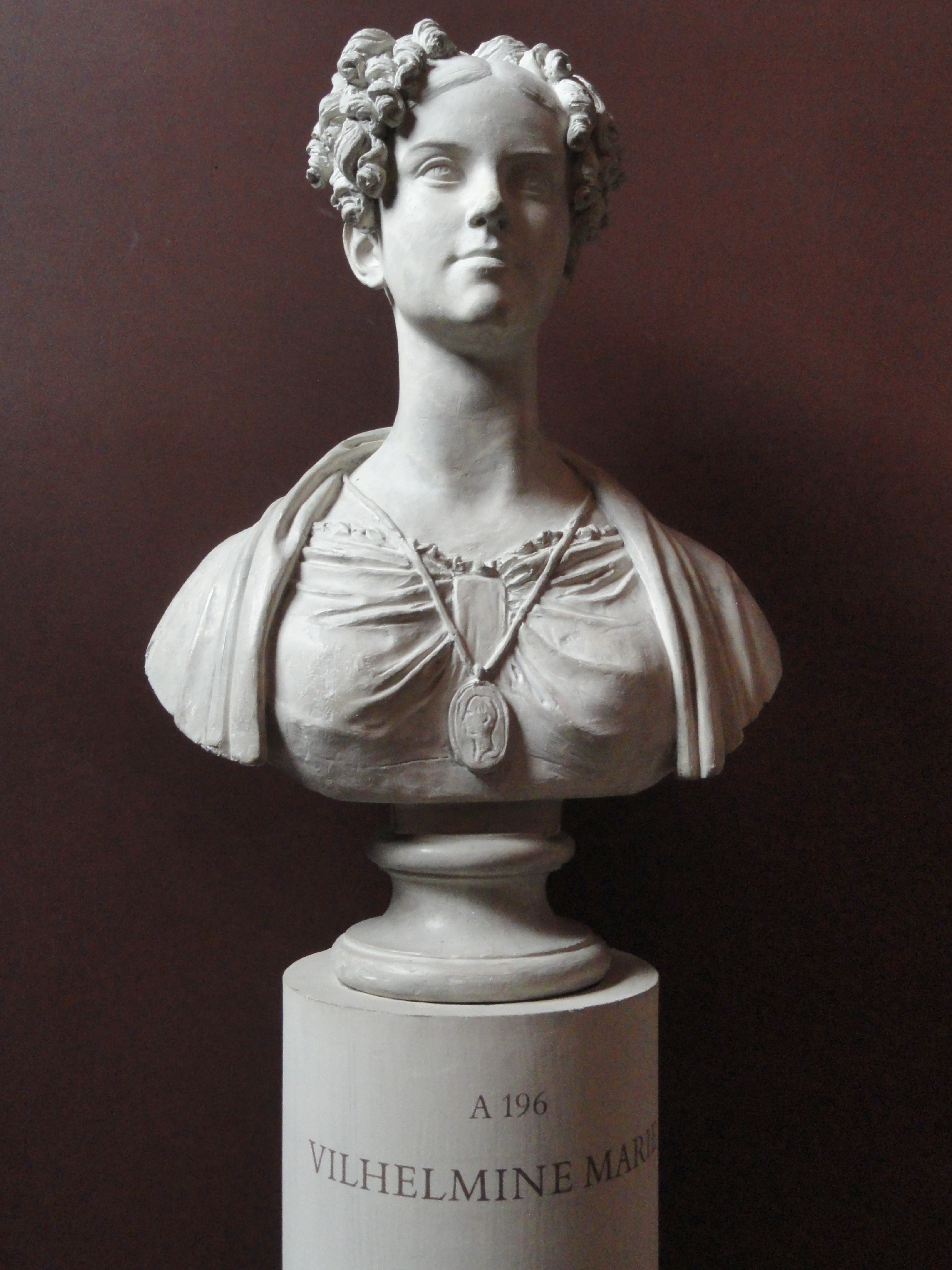 Sculpture in Thorvaldsens Museum, Copenhagen, Denmark. Sculptor: Bertel Thorvaldsen (c. 1770-1844). This artwork is now in the public domain because the artist died more than 70 years ago.